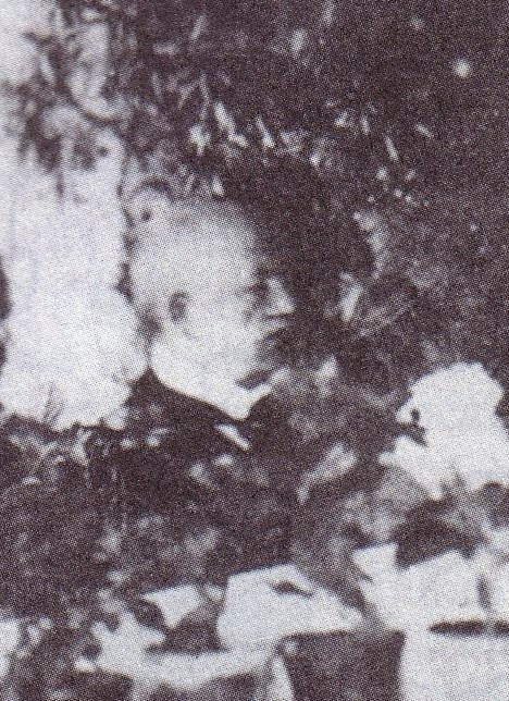 Vice-Roy of Croatia Slavko Cuvaj